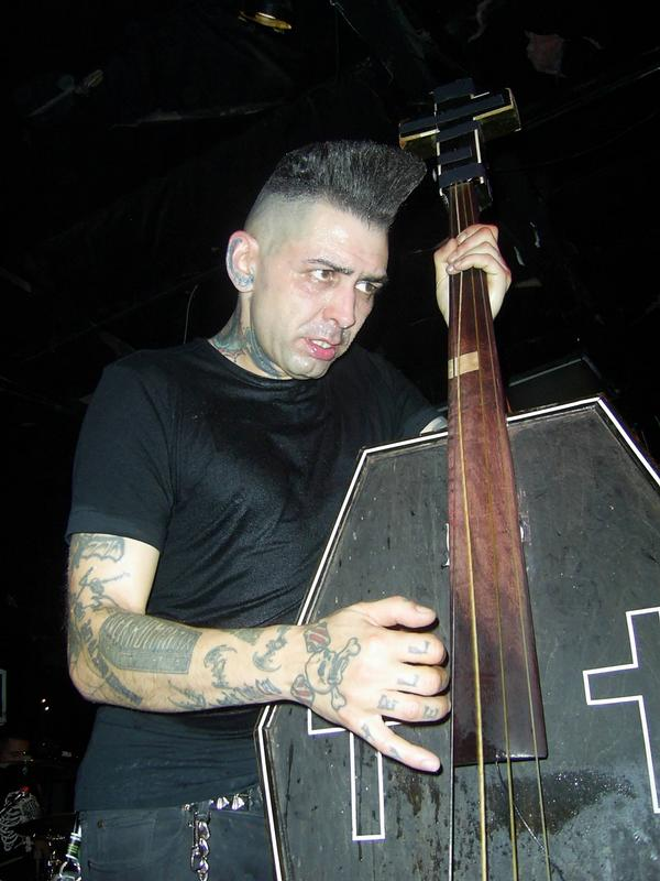 This is a picture i took of Kim Nekroman playing with Nekromantix live in Tempe, AZ in December of '07